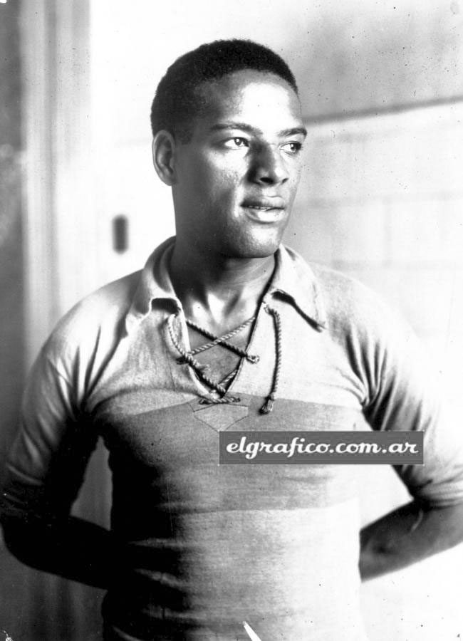 Brazilian player Domingos da Guia with Boca Juniors